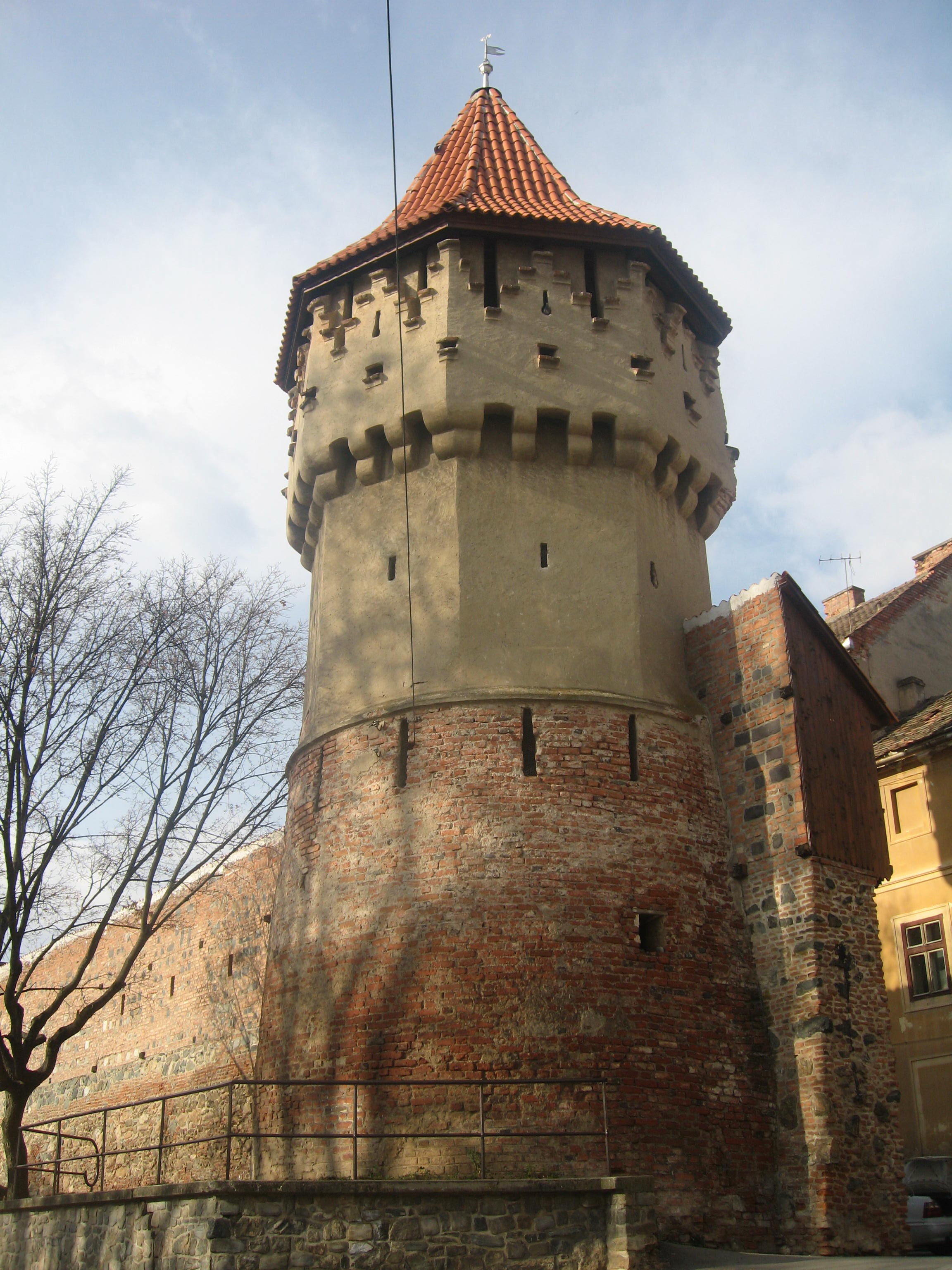 Turnul Dulgherilor in Sibiu, Romania